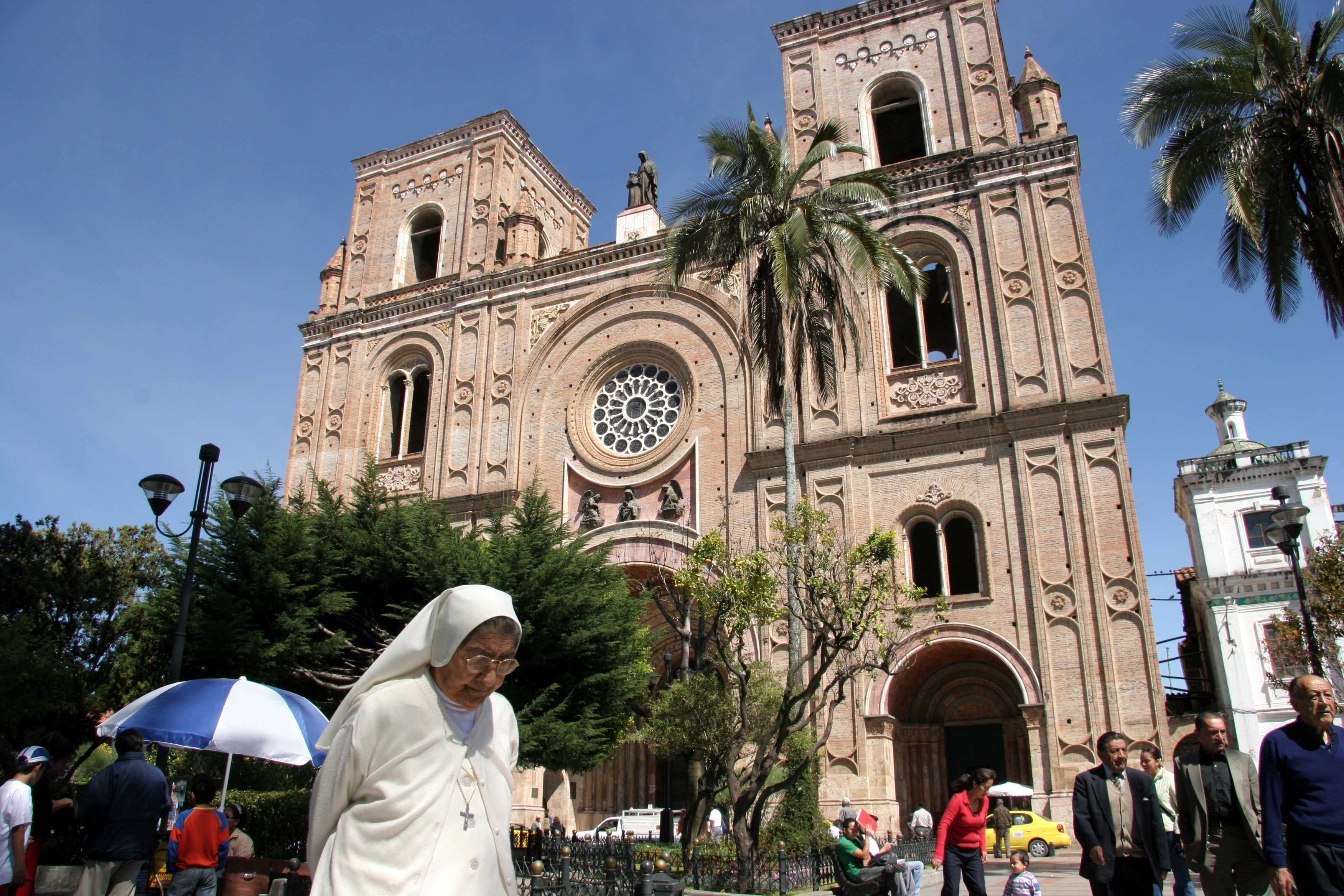 Cuenca ecuador